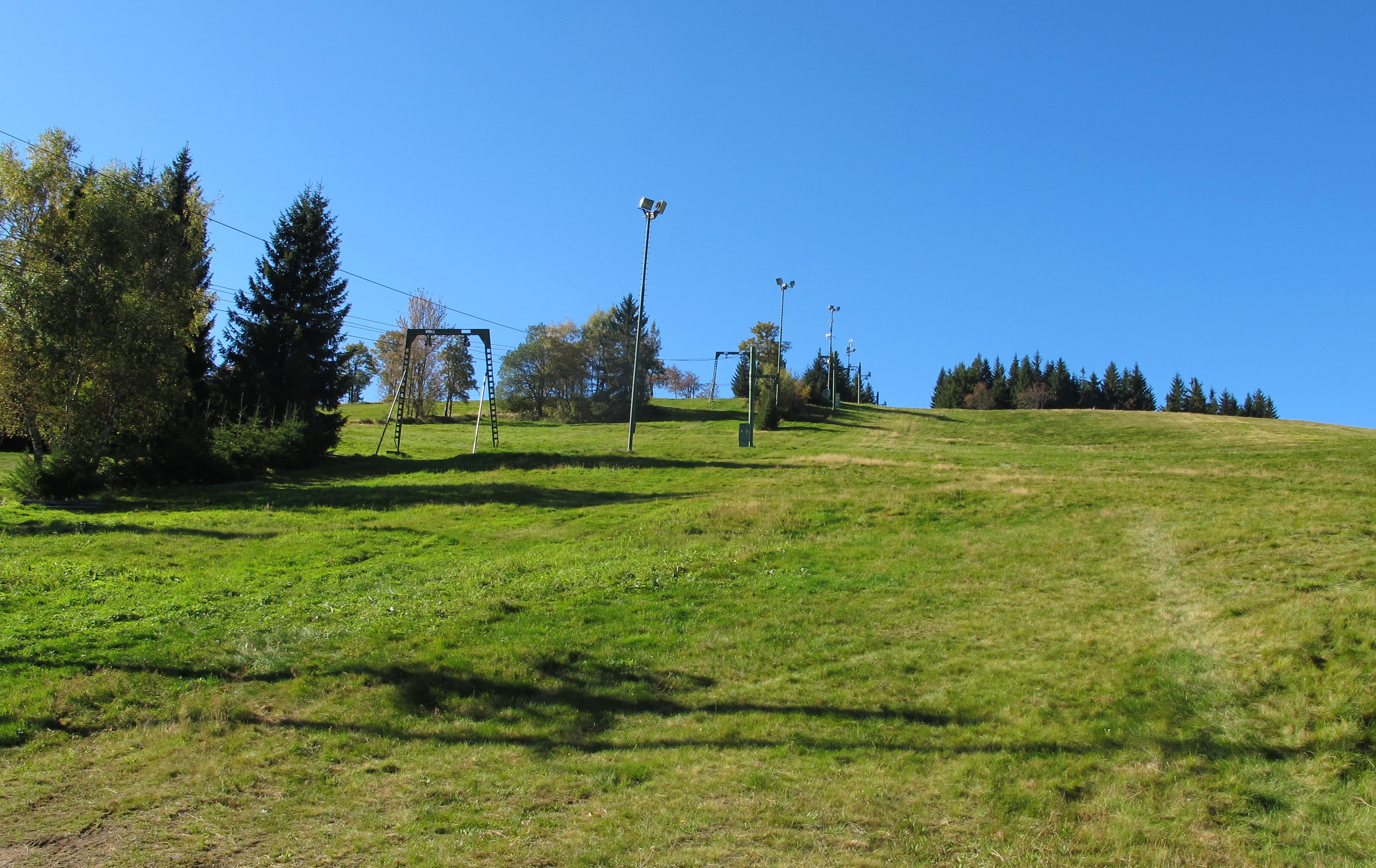 Bedřichov in Jablonec nad Nisou District, Jizera Mountains, Czech republic